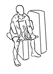 an exercise of biceps